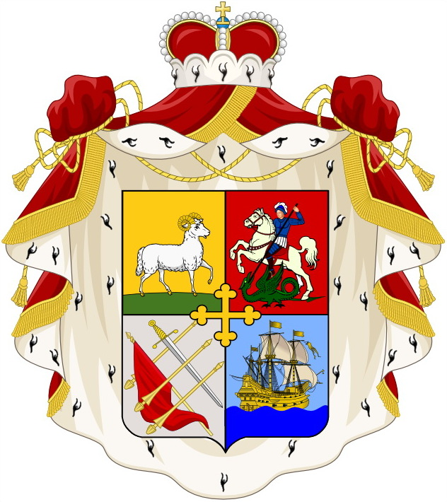 Coat of arms of the Dadiani family from Mingrelia